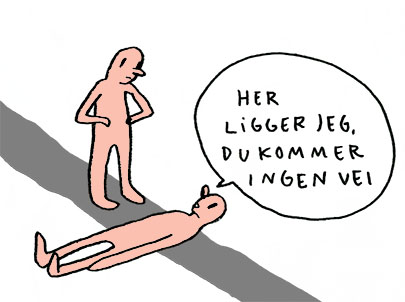 Civil disobedience